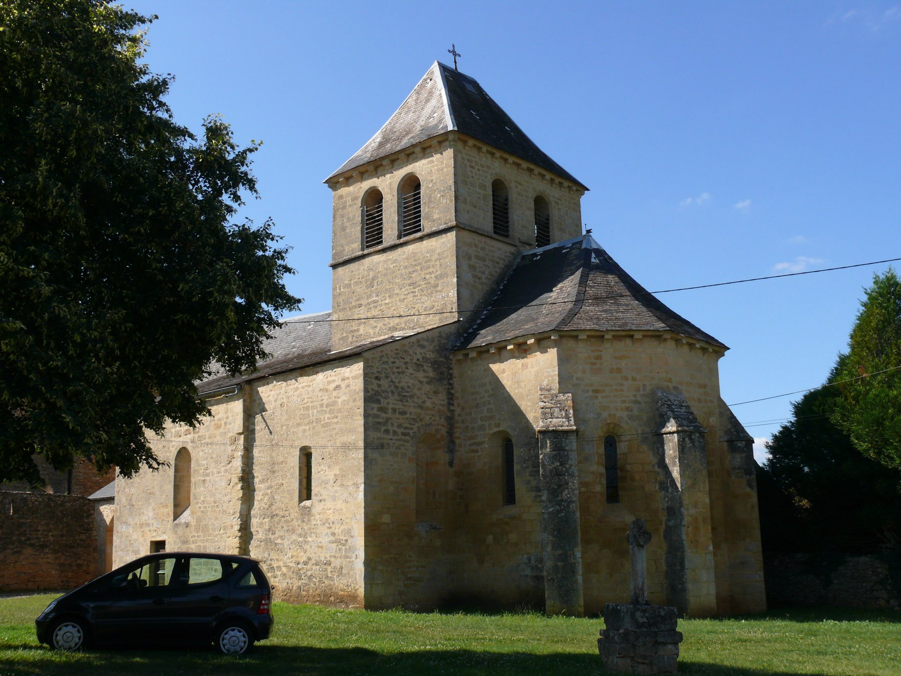 Saint-Hilaire's church of Masclat (Lot, Midi-Pyrénées, France).